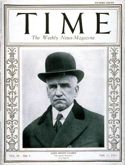 TIME Magazine Cover featuring John Hessin Clarke (11 Feb 1924)